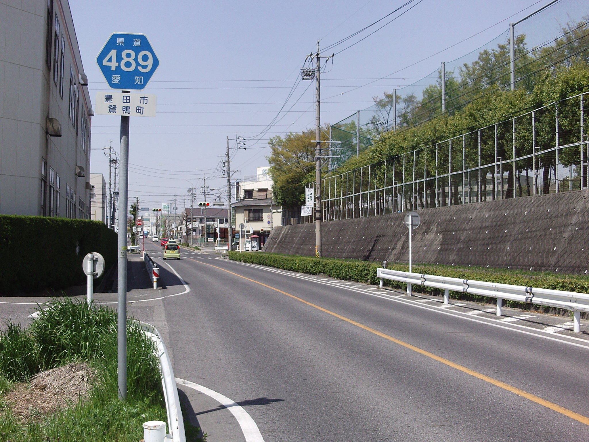 Aichi prefectural road No.489 in Oshikamocho, Toyota, Aichi.